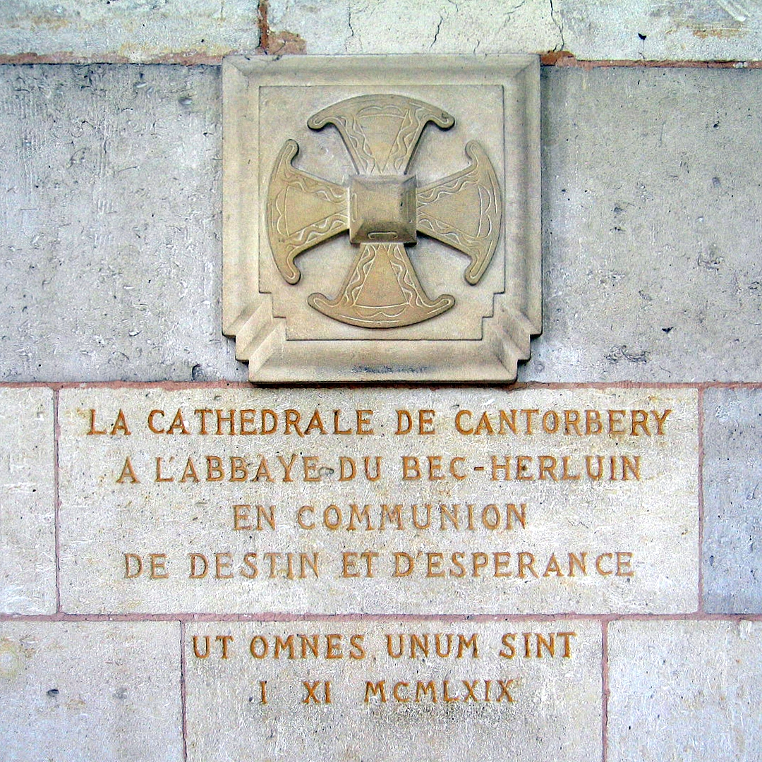 This cross is located on the north wall of the abbey church at Bec, to the left of the entrance. It was donated by Canterbury Cathedral in 1969. Both Lanfranc and Anselm served as priors of the monastery at Bec before becoming archbishops at Canterbury.